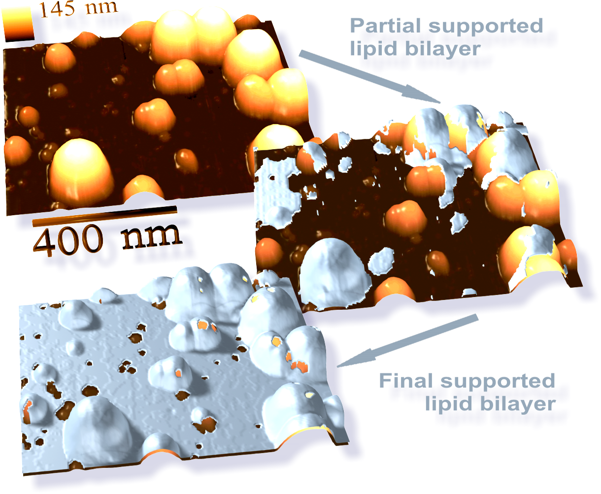 Supported lipid bilayer formation on surface covered with nanoparticles of different sizes. Transmembrane pores (or holes) are formed around particles of approximately 1 to 20 nm diameter. Shown 3D figures are the adapted representation of the series of tapping mode atomic force microscopy images recorded under liquid buffer medium. At giving attribution, the following reference should be cited: Y. Roiter, M. Ornatska, A. R. Rammohan, J. Balakrishnan, D. R. Heine, and S. Minko, Interaction of Nanoparticles with Lipid Membrane, Nano Letters, vol. 8, iss. 3, pp. 941-944 (2008).